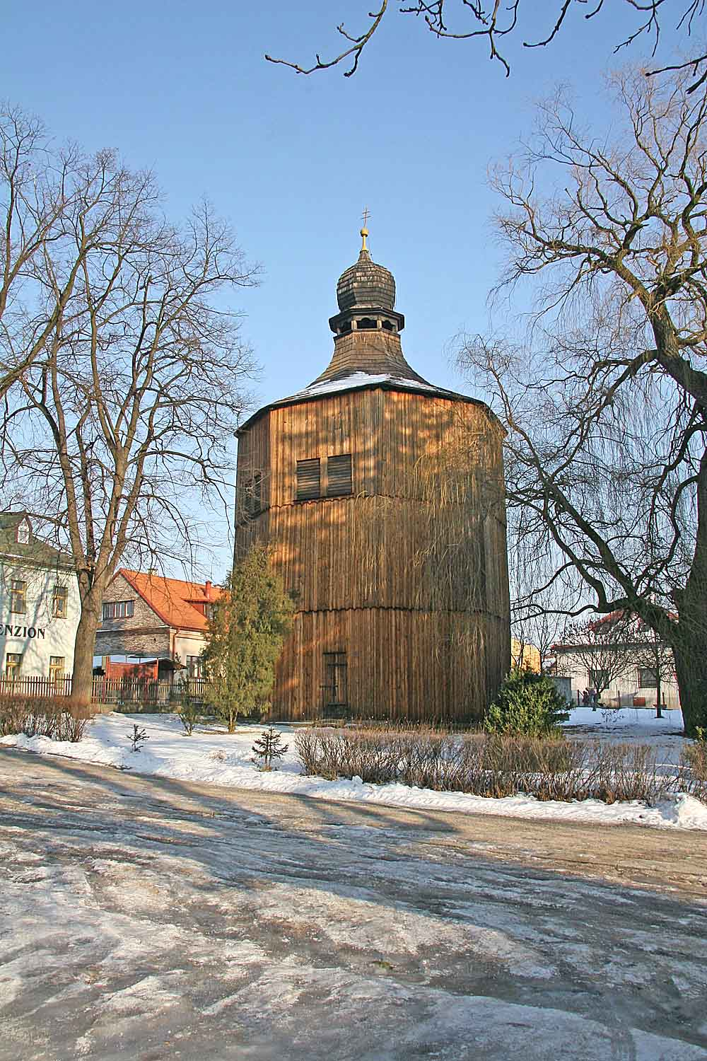 Octogonal wooden bell tower from 16th century next to Holy Trinity church in Sezemice, Pardubice District, Czech Republic.